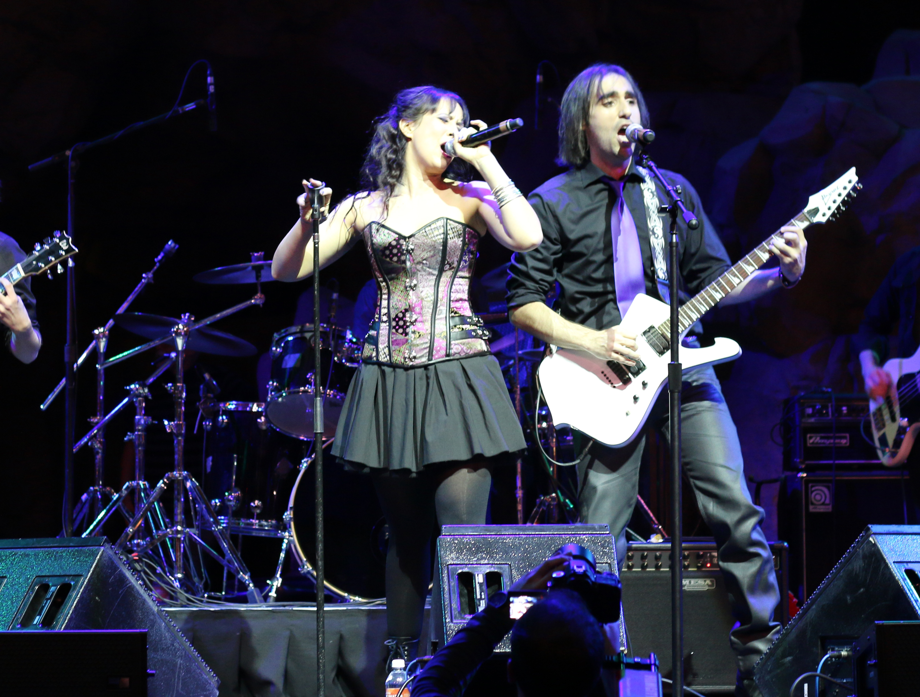 The band, Venus Mars Project, performing at the Wolf Den in the Mohegan Sun casino on November 11, 2015 in Uncasville, CT, as part of the 2015 Locals Live competition. From left to right: Jacyn Tremblay, Peter Tentindo.